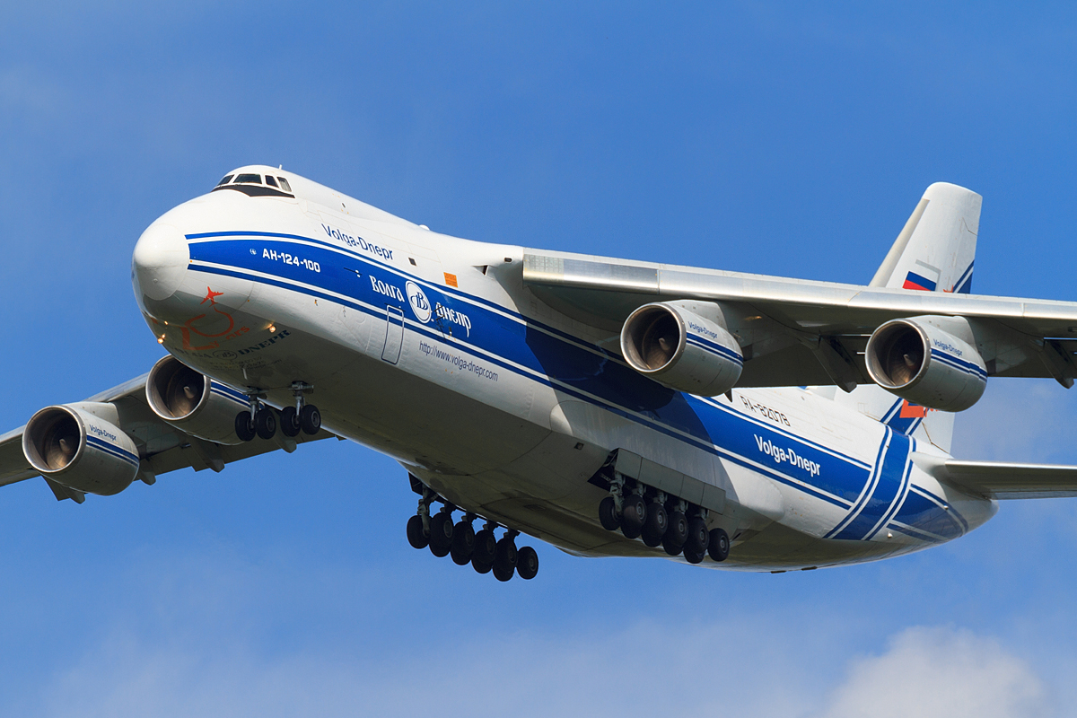 Volga-Dnepr Antonov An-124-100 landing at Vladivostok Airport.